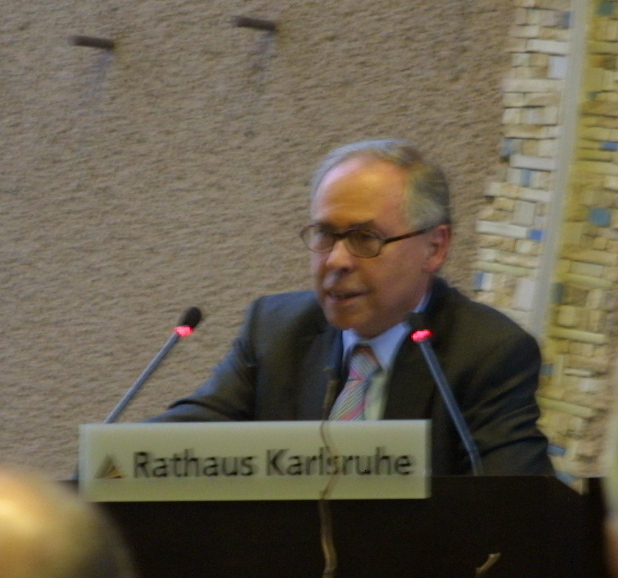 Spyros Simitis, a international reputated lawyer and expert for data privacy. Image taken on a commemorative event because of the 25th anniversary of the Volkszählungsurteil (see Informational self-determination)